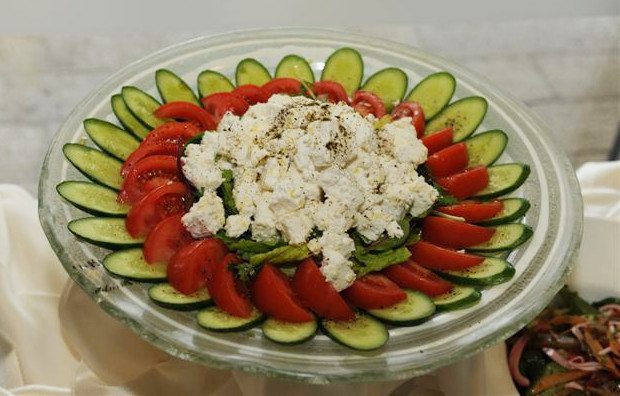 Israeli cheese and salad